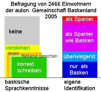 Block diagram of the CIS questioning of 2466 people of 76 localities of the three provinces in the Autonomous Community of Basque Country in Spain from April 4th to May 10th in 2005.